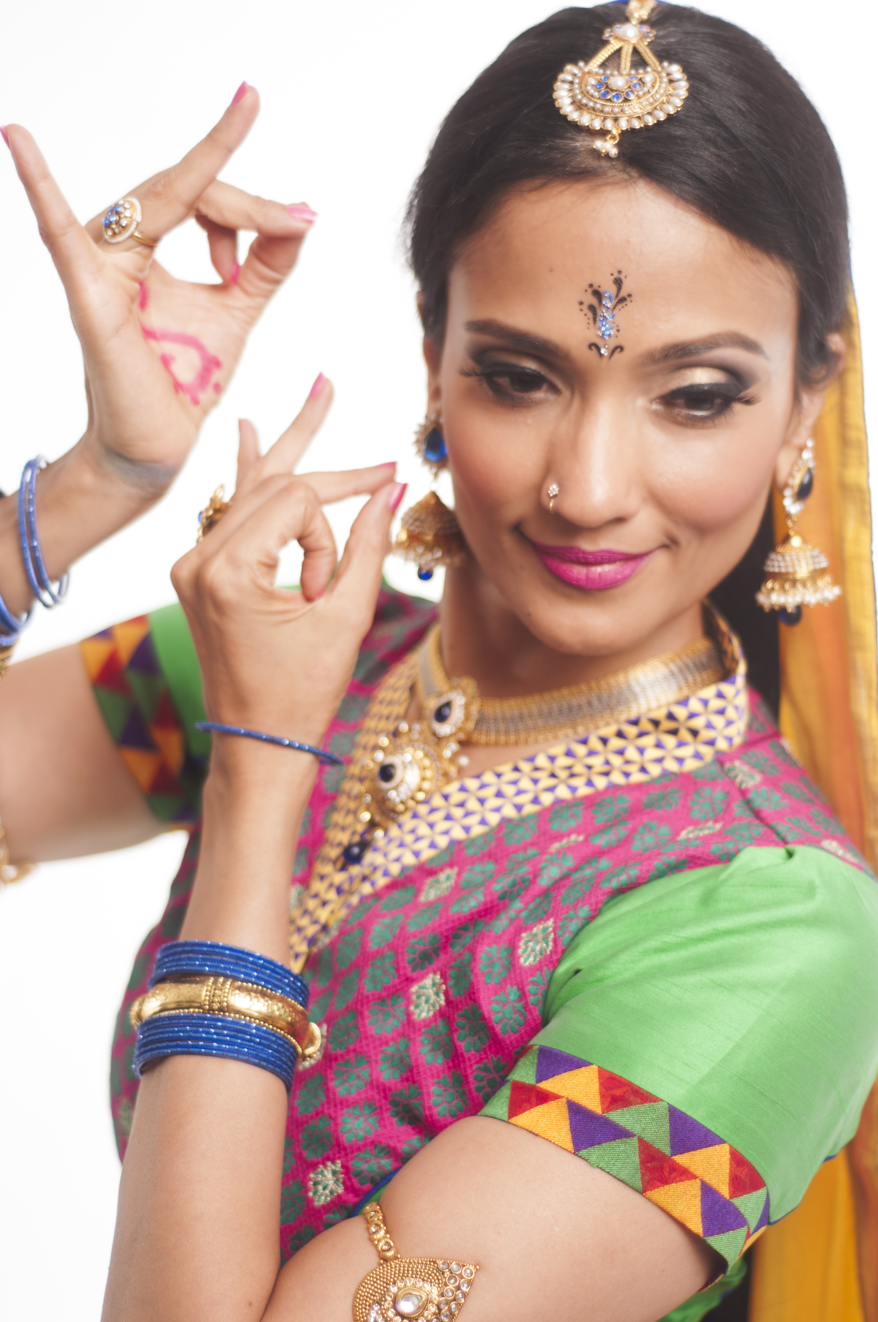 Promo for Savitha Sastry's Chains: Love Stories of Shadows